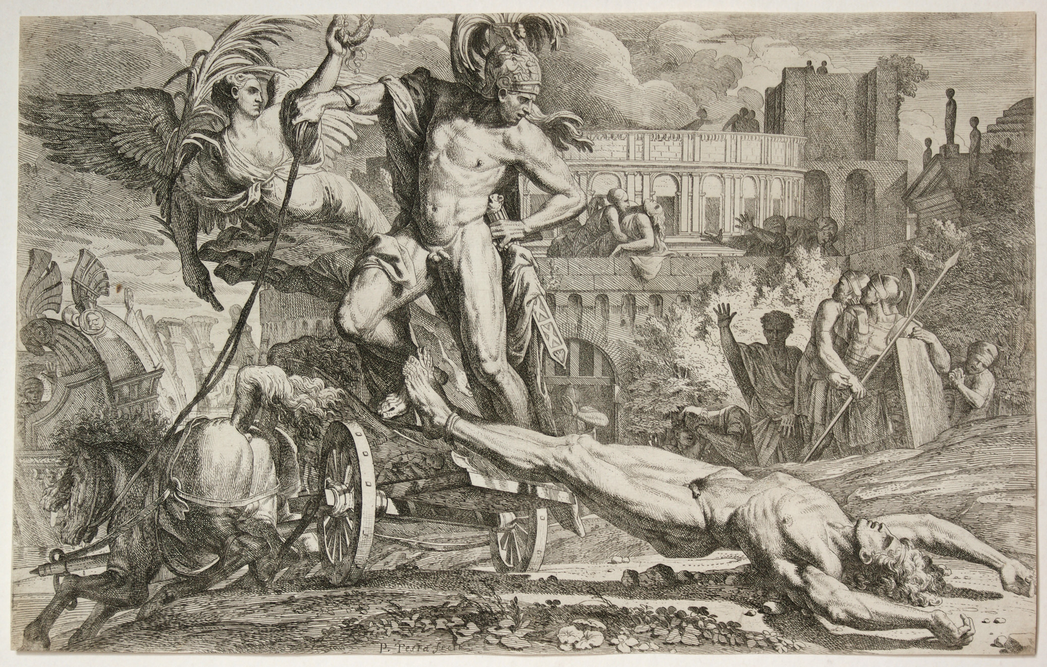 Achille trascina il corpo di Ettore